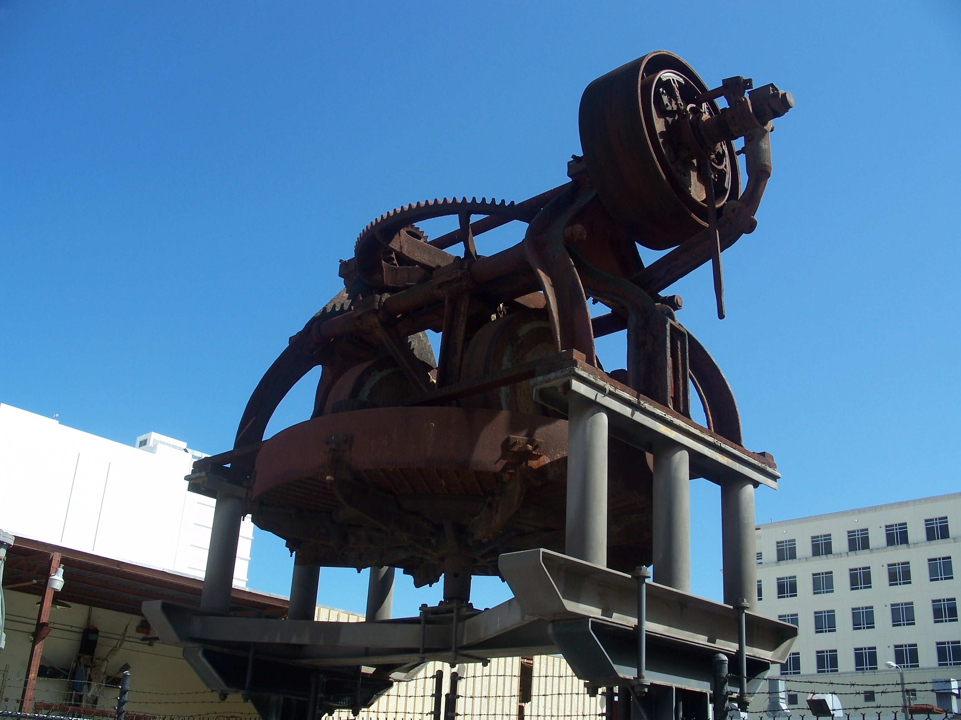 Coral Gables, Florida: I. and E. Greenwald Steam Engine No. 1058